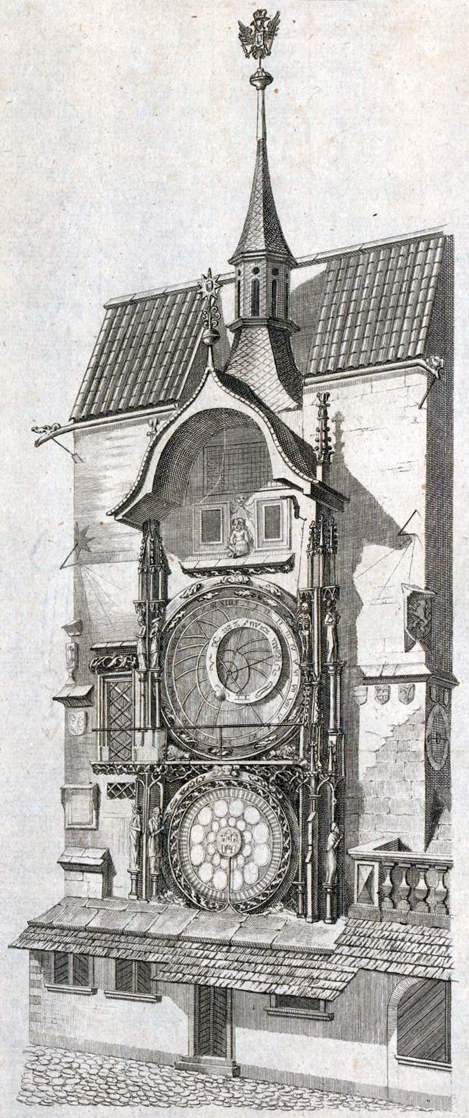 The Prague Astronomical Clock, c. 1791.